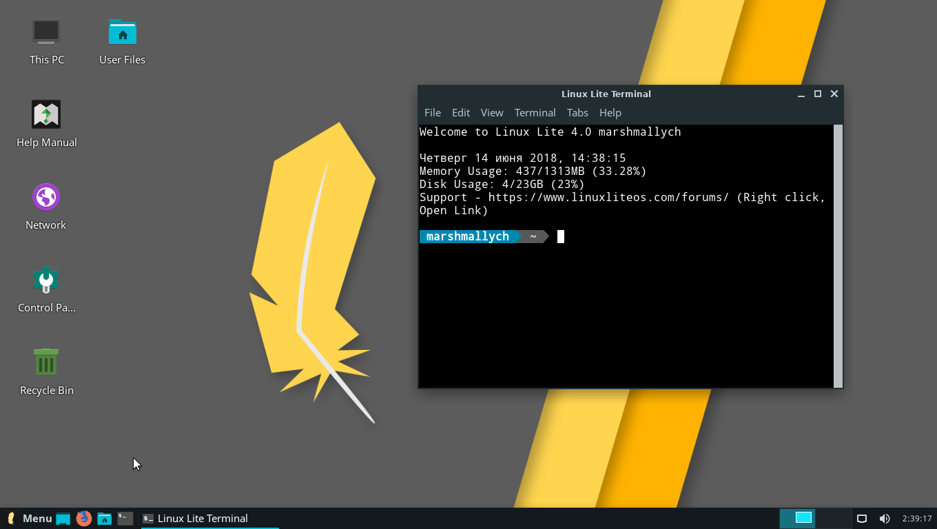 The screenshot of last Linux Lite 4.0, which released on 1 June 2018.